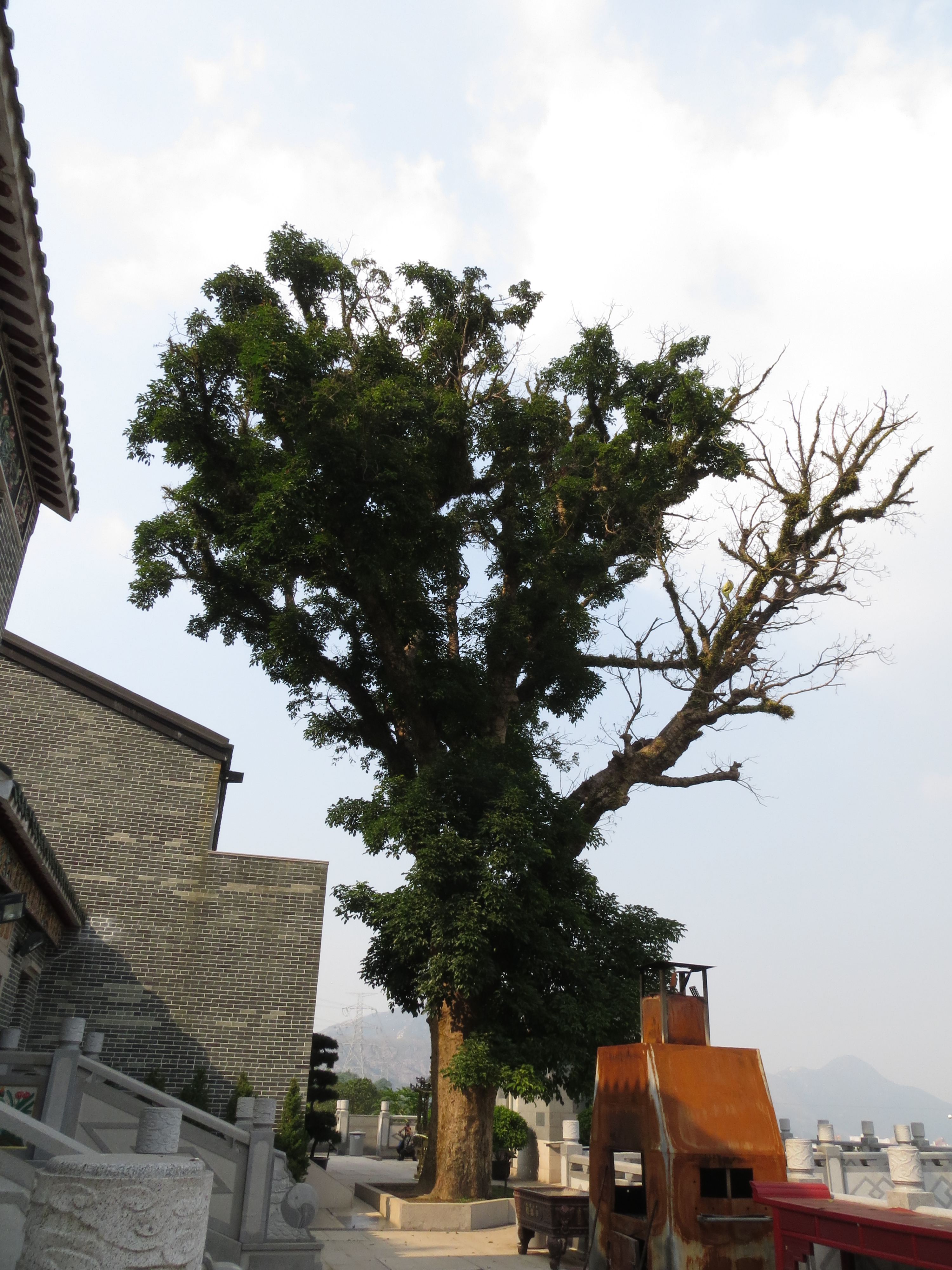 A Bischofia javanica at Tsing Wan Kwun, Castle Peak, Tuen Mun, New Territories, Hong Kong.